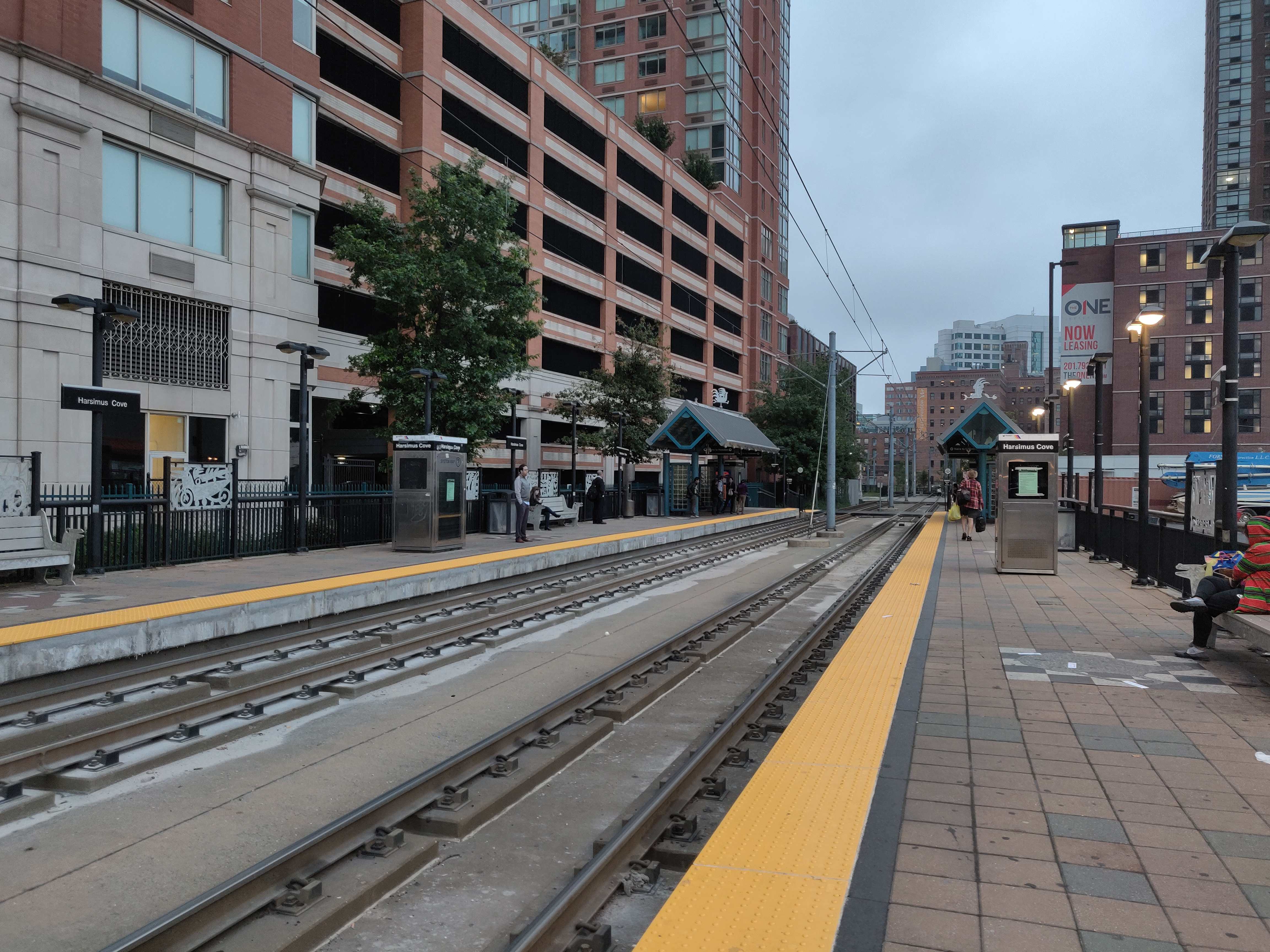 "Harsimus Cove" Station in Jersey City, New Jersey, USA. This station is a part of the "Hudson Bergen Light Rail" system. The photographer is facing south on the southbound platform.